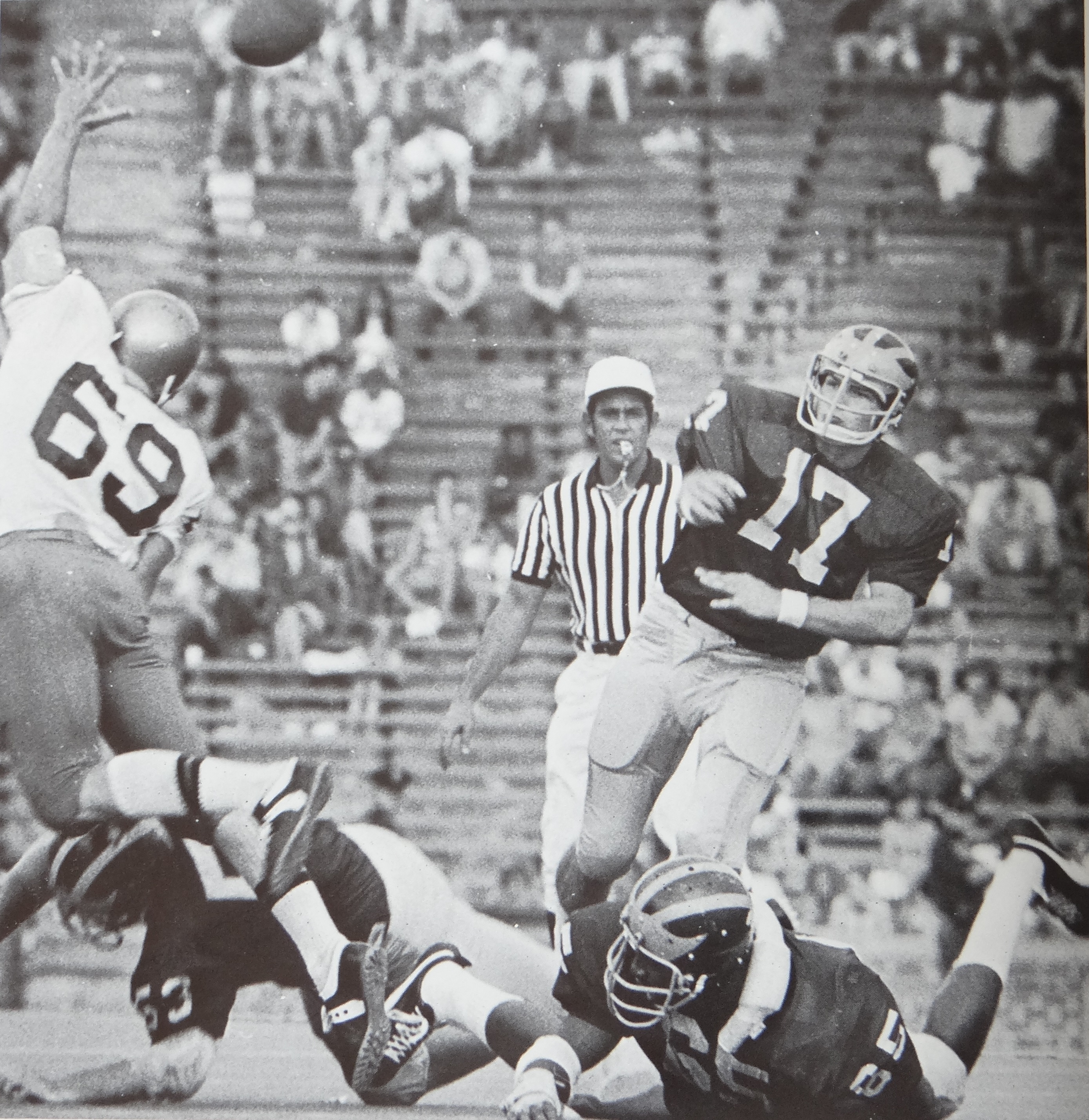 Photograph of University of Michigan quarterback Tom Slade